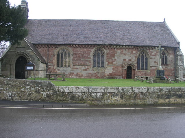 St Mary the Virgin St Mary the Virgin Church in Edstaston was founded in 1150.